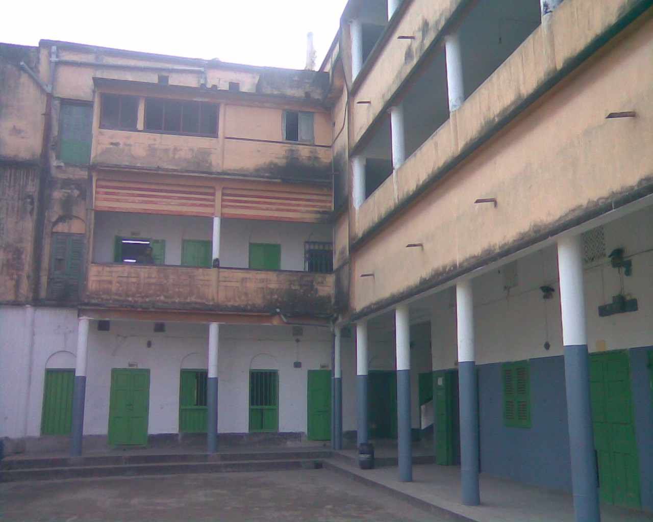 Main building of Sri Ramkrishna Sikshalaya